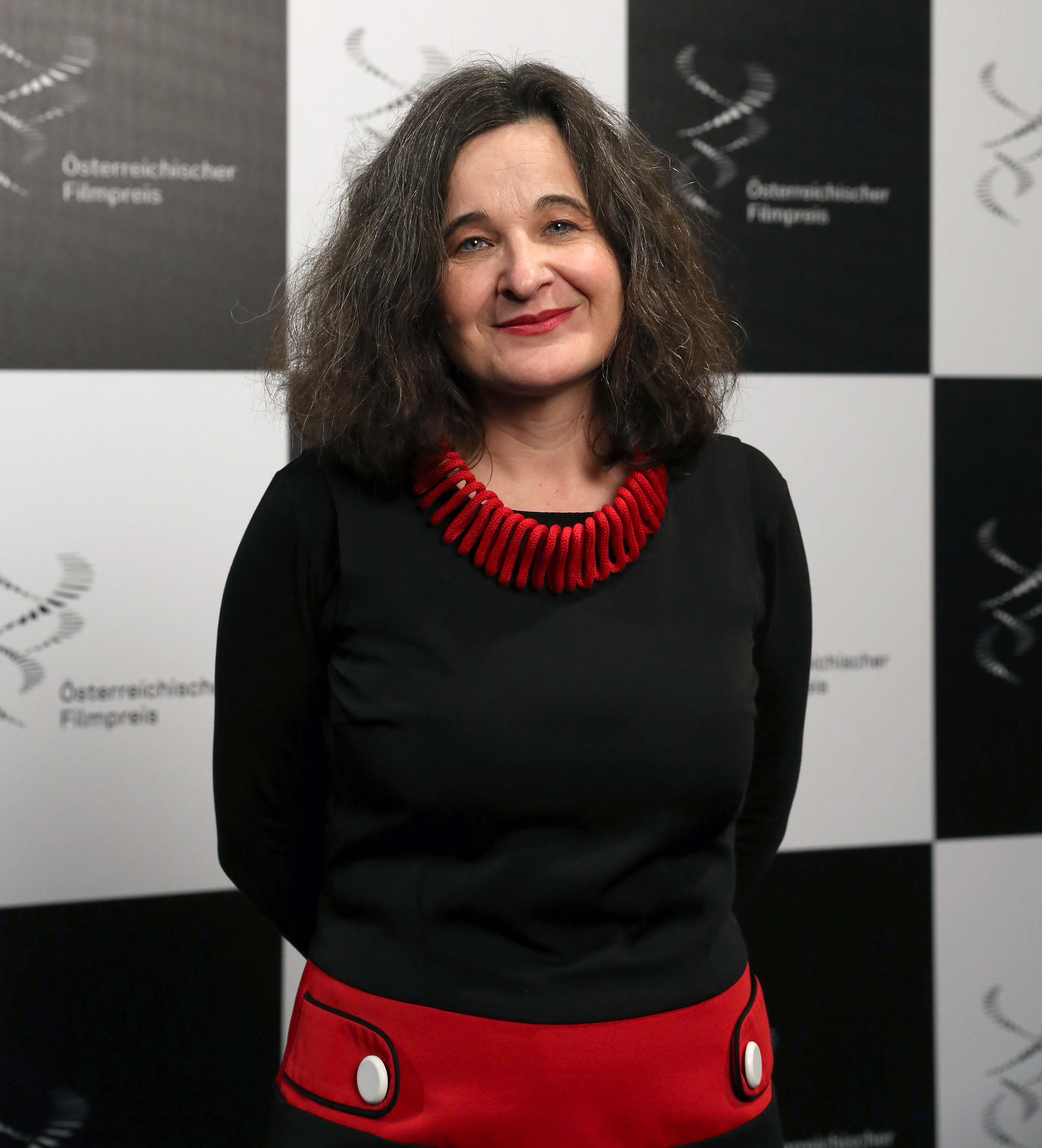 Maria Hofstätter (best actress in "Paradise: Faith"), Austrian Film Awards 2014 (Grafenegg, Austria).